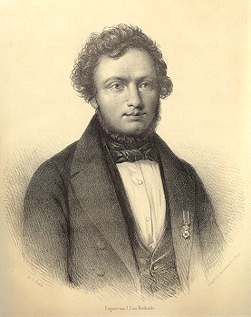 Adriaan van der Hoop jr by A.J. Ehnle and P. Blommers